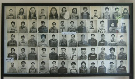 Photographic display of inmates in Tuol Sleng (one panel out of the many on display). Photo taken by me (Gary Jones) April 2004.